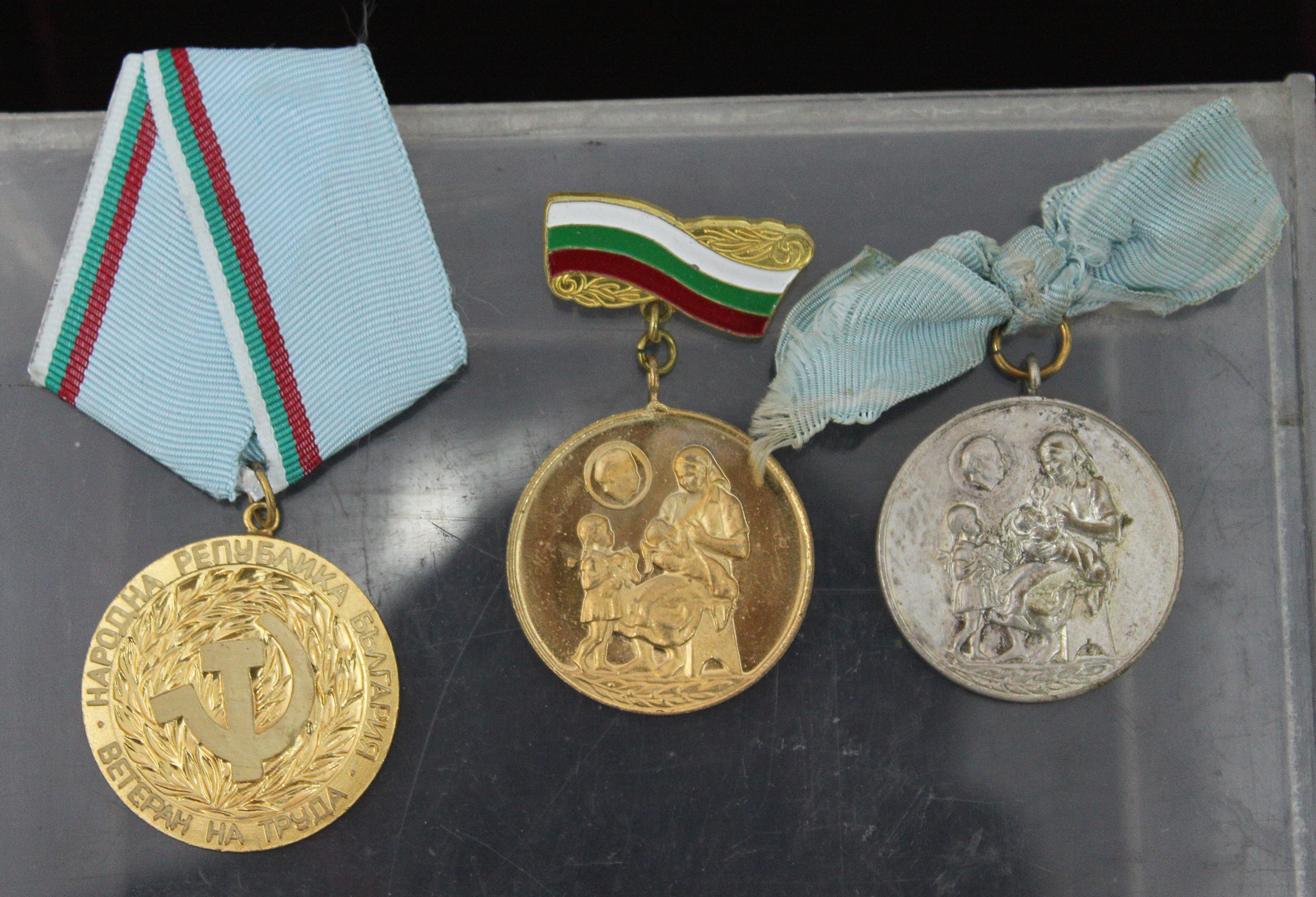 Historic Museum Ivailovgrad, Bulgaria